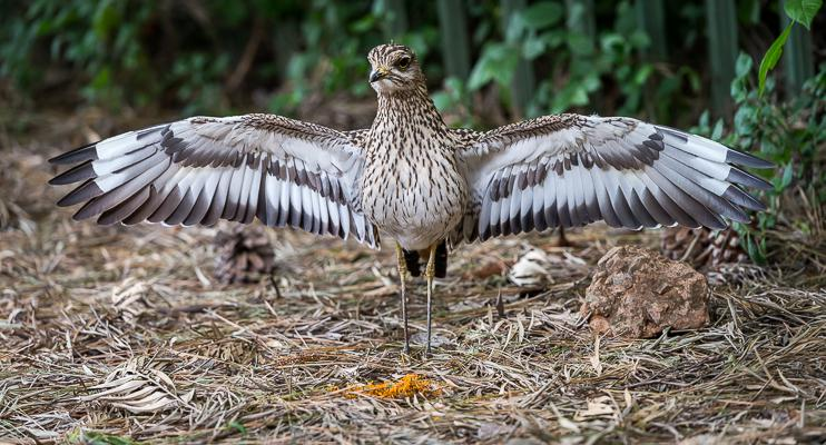 Spotted thick-knee adopting a defensive pose